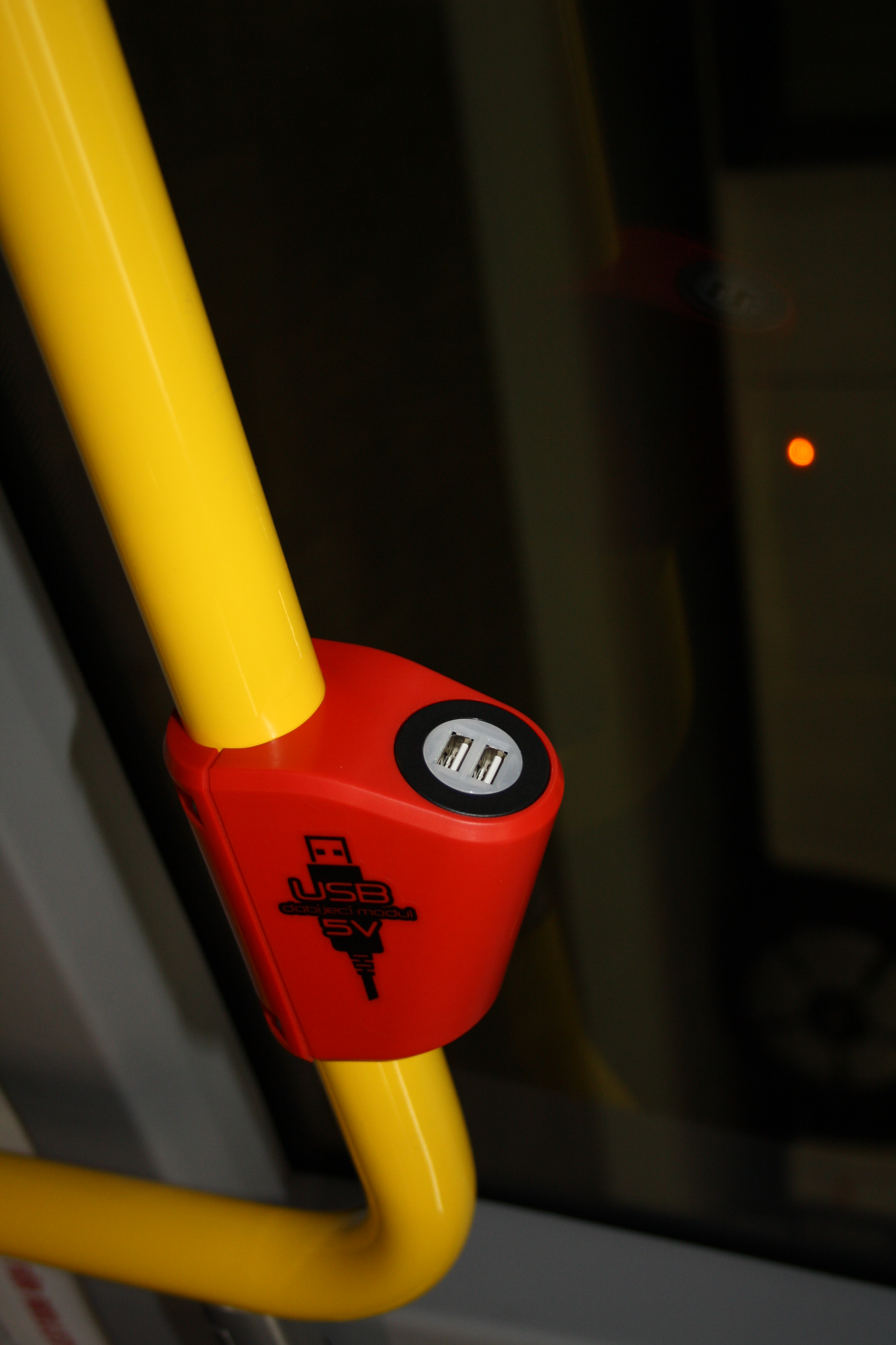 USB mobile phone charger in the bus Volvo